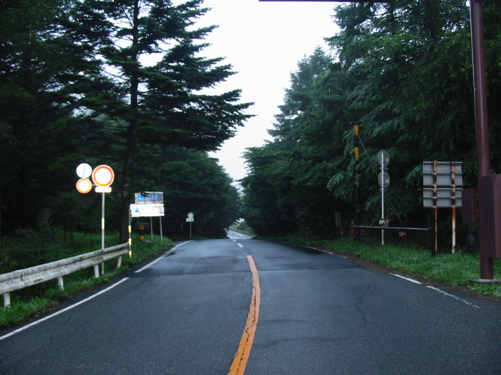 Wami Pass on the border between Gunma and Nagano Prefectures